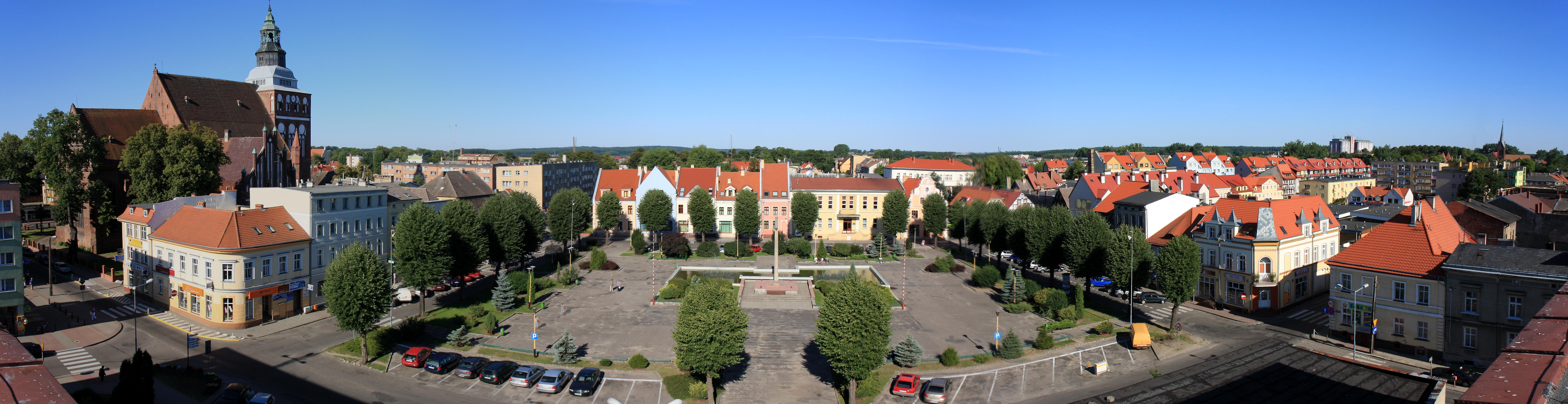 Panorama of Zwycięstwa Square (Victory Square) in Gryfice, Poland